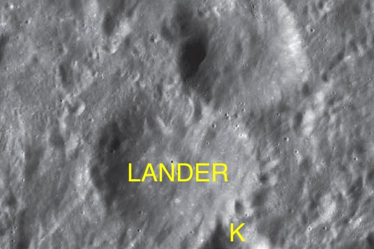 Part of the chart LAC-84 used for the presentation